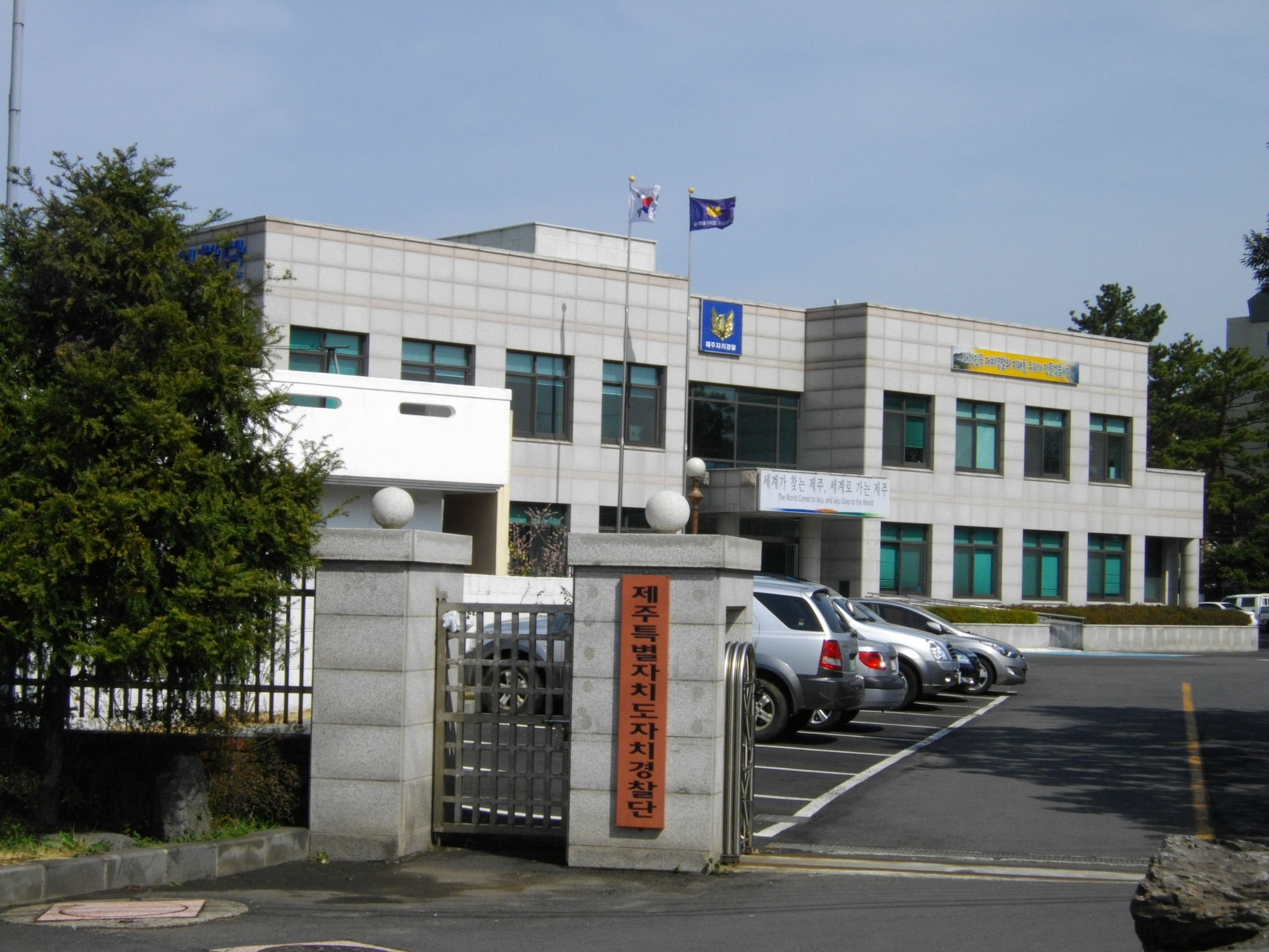 Jeju Municipal Police Building